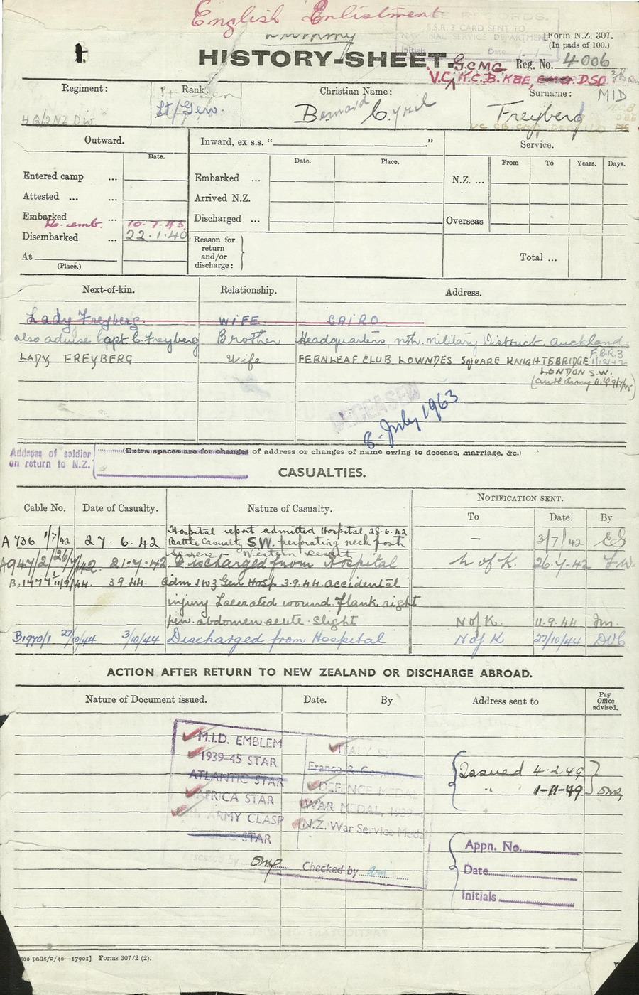 Personnel file (1939 - 1945) of Bernard Cyril Freyberg. Served during WWII in the New Zealand Army. Recipient of the Victora Cross (Gallantry Medal). Archives New Zealand Reference: AABK 18806 W5602 1